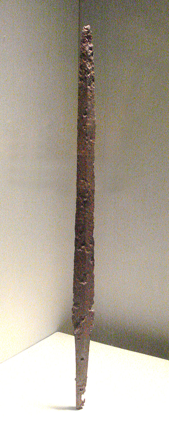 Ken_double_edge_straight_sword_Kofun_period_5th_century